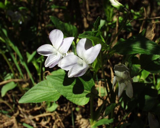 (en) Viola jordanii, a photography originating of the internet site The accord of the autor, H. Brisse, is here. (fr) Viola jordanii, une photographie issue du site internet L'accord de l'auteur, H. Brisse, se situe ici.